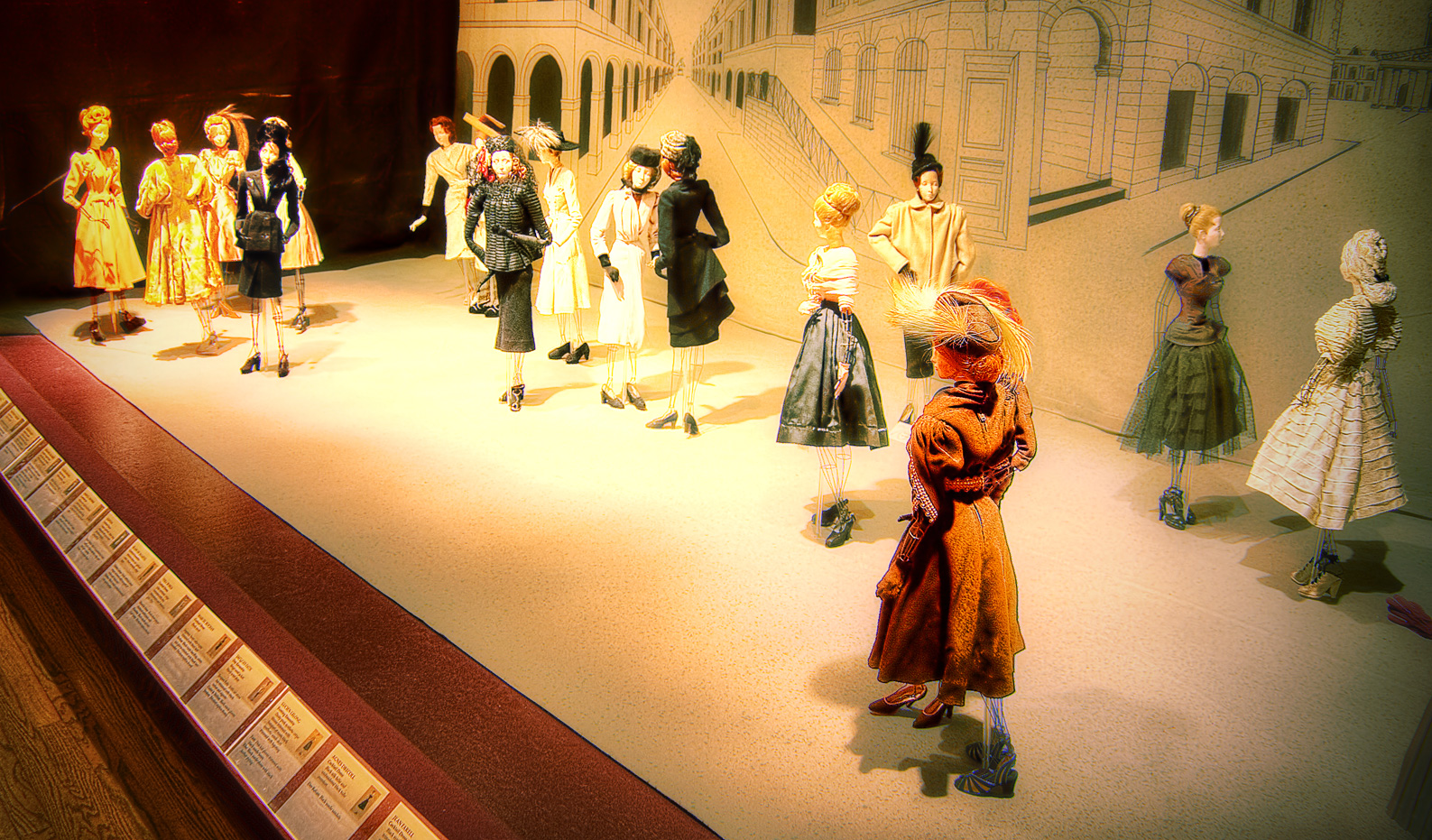 Post WWII Paris fashion doll display at Maryhill Museum